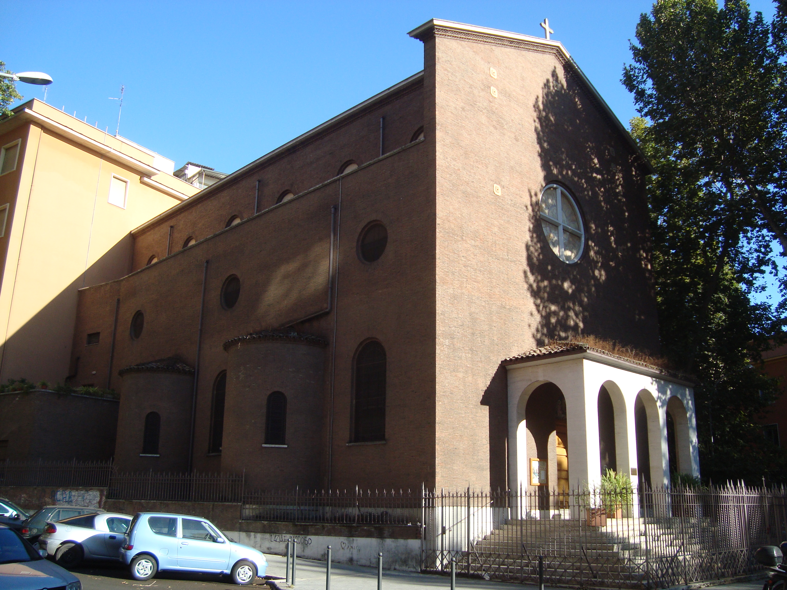 Lateral view of the church Preziosissimo Sangue di Nostro Signore Gesù Cristo in Appio Latino, Rome